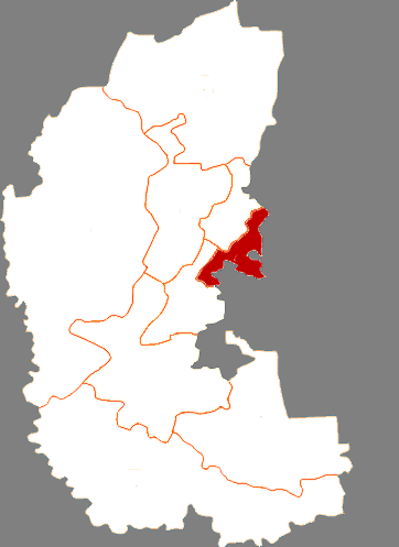 Location of Longfeng District in Daqing City, China